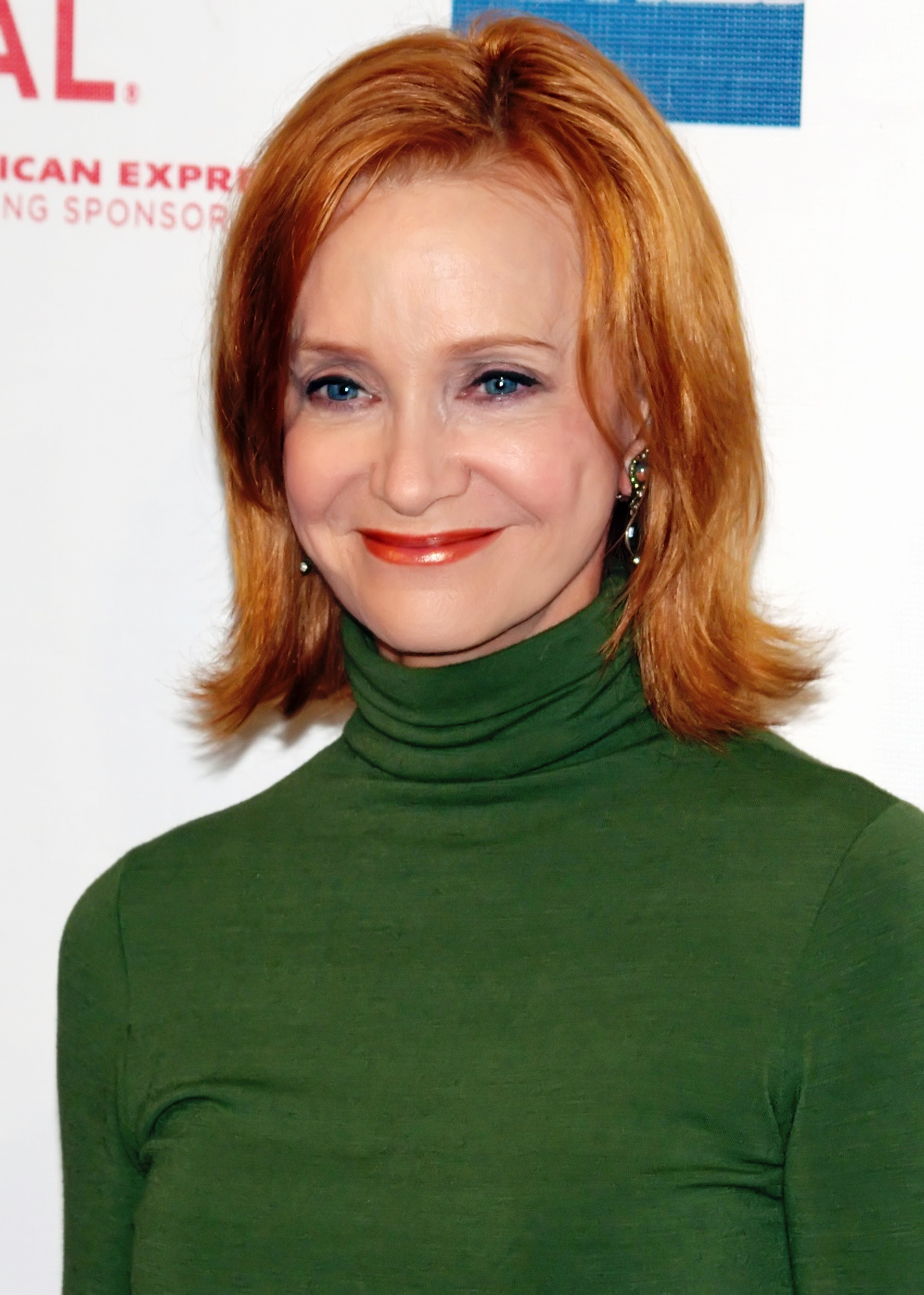 Swoosie Kurtz at the 2009 Tribeca Film Festival premiere of Poliwood. Photographer's blog post about the event at which this portrait was taken.